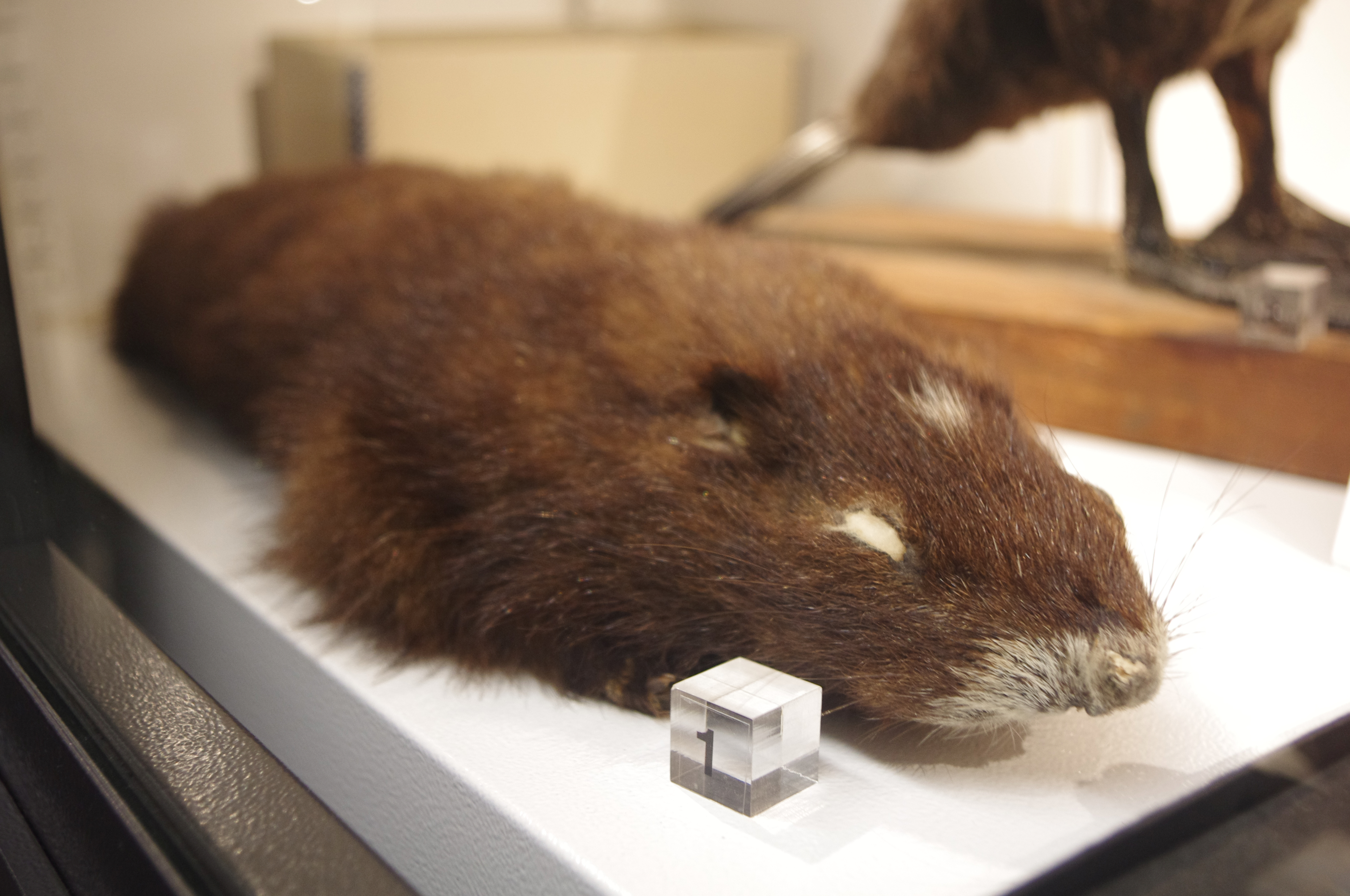 Marmota vancouverensis at the Beaty Biodiversity Museum